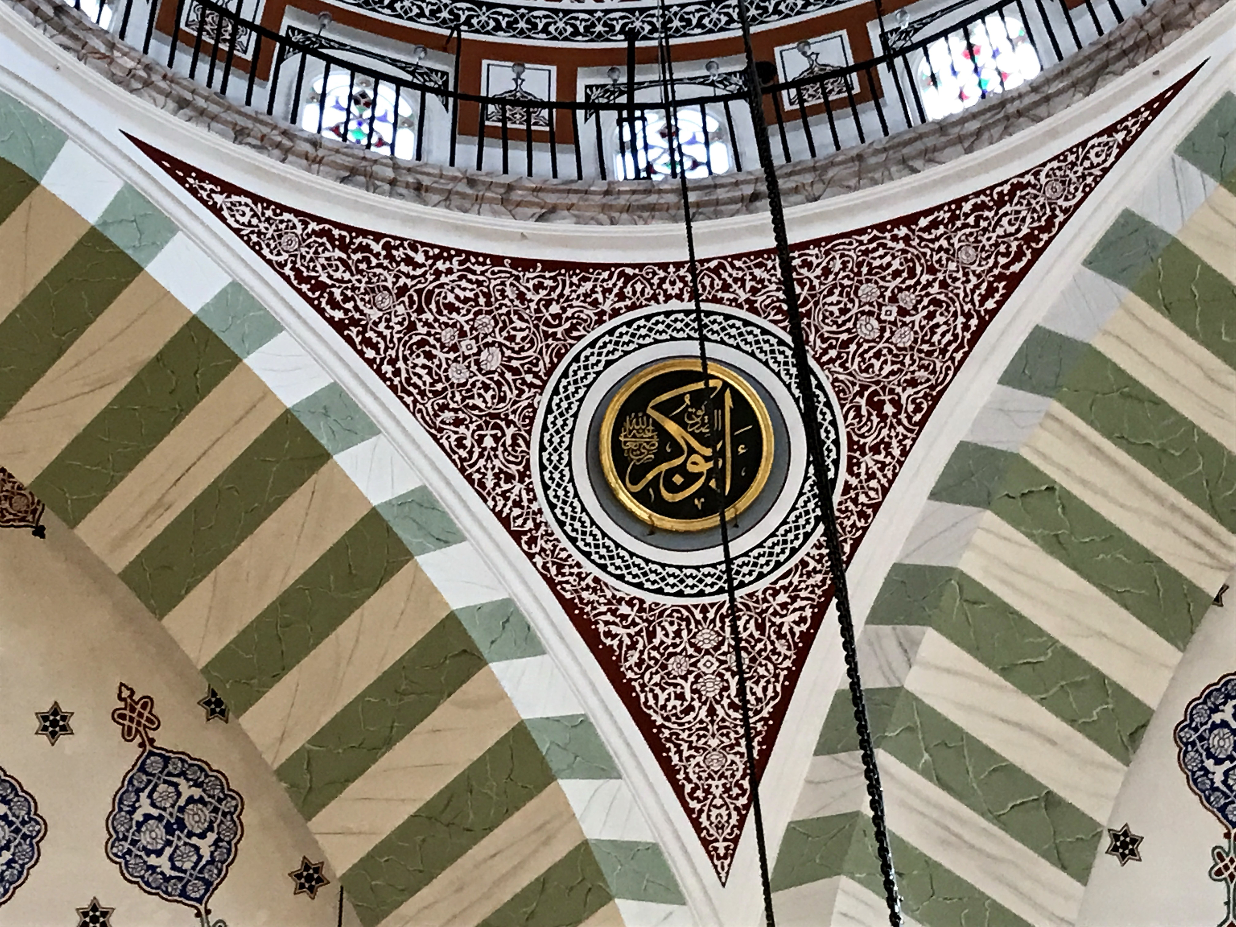 Mihrimah Sultan Mosque (built 1548), is an Ottoman mosque located in the historic center of the Üsküdar municipality in Istanbul, Turkey. It is the first of two mosques built by Mihrimah Sultan, daughter of Sultan Suleiman the Magnificent and wife of Grand Vizier Rüstem Pasha. It was designed by Mimar Sinan and built between 1546 and 1548.